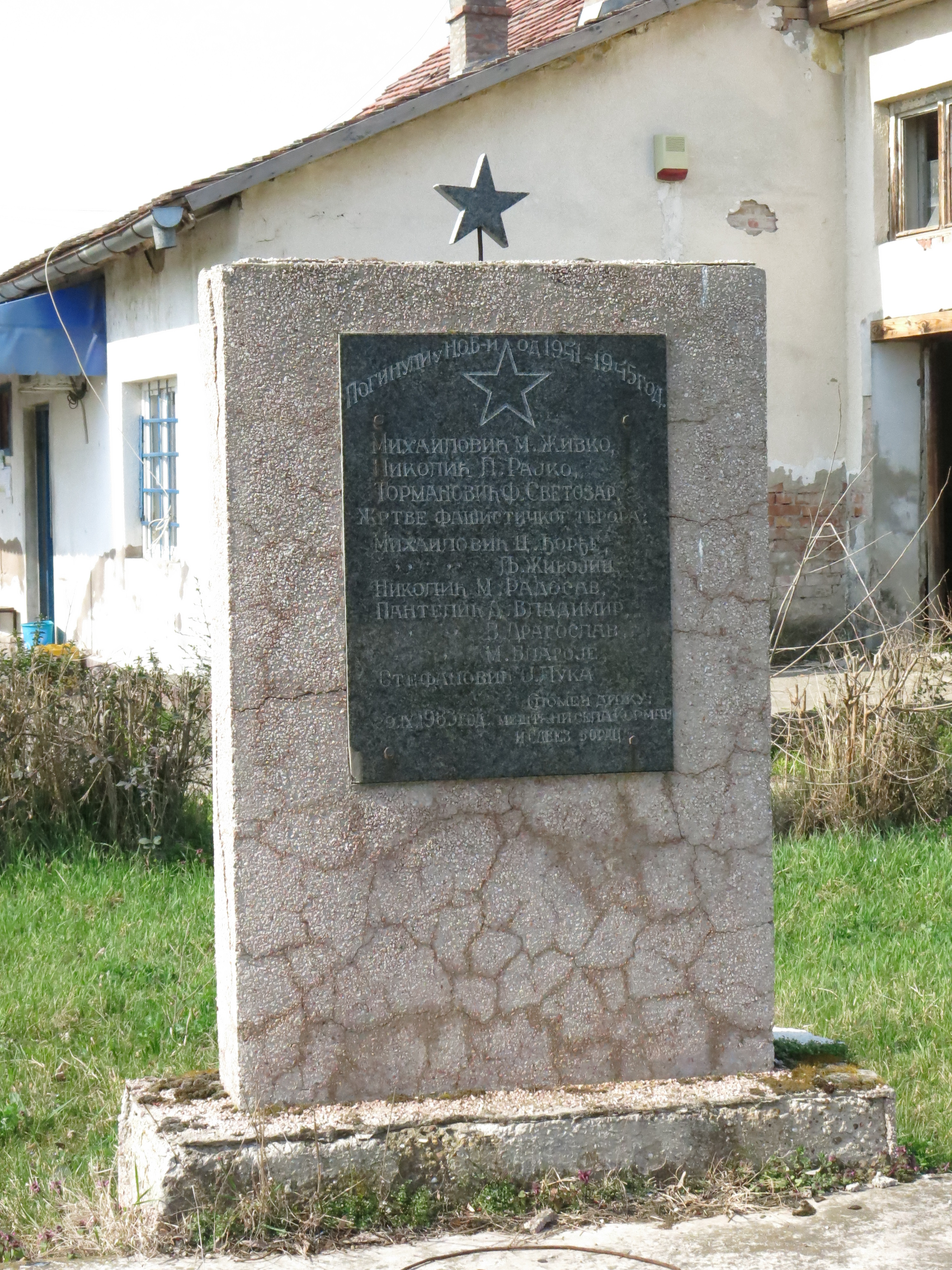 Korman, Monument to the fallen in World War II